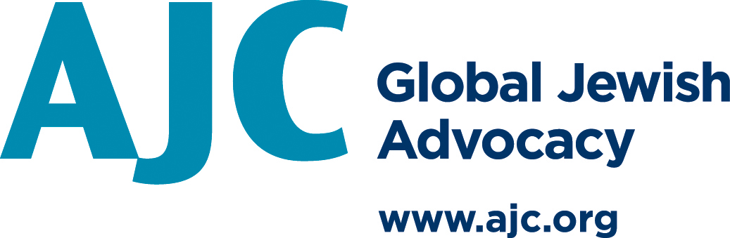 American Jewish Committee logo.